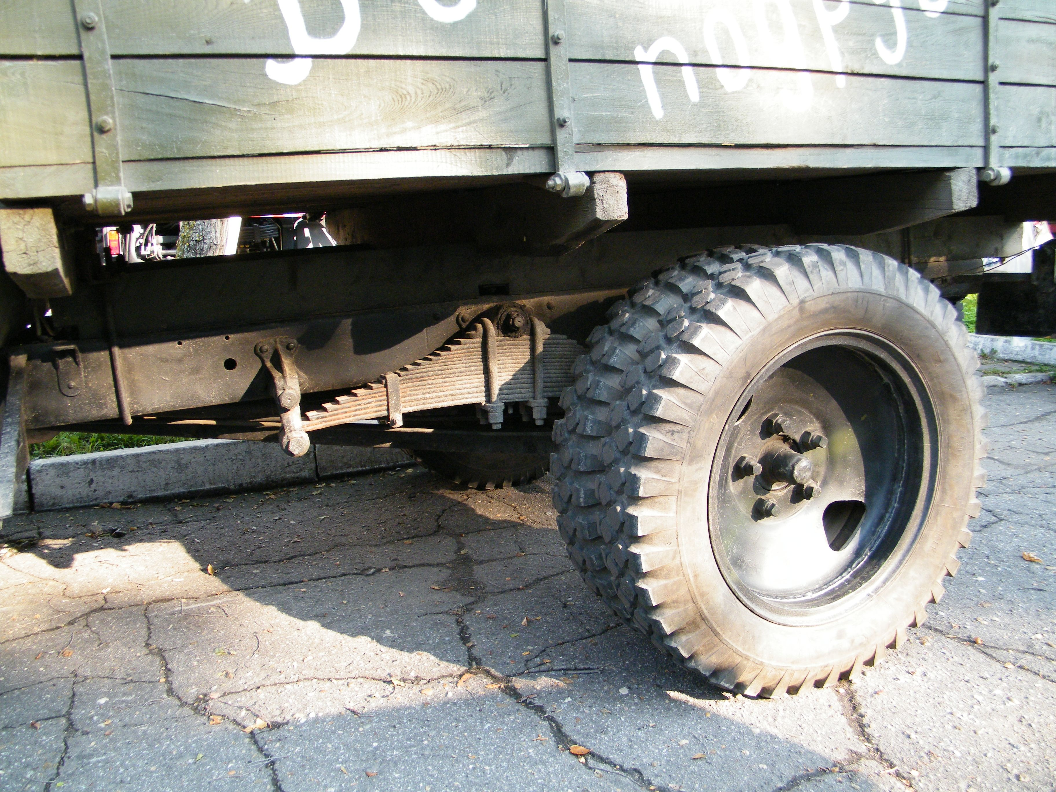 GAZ-MM